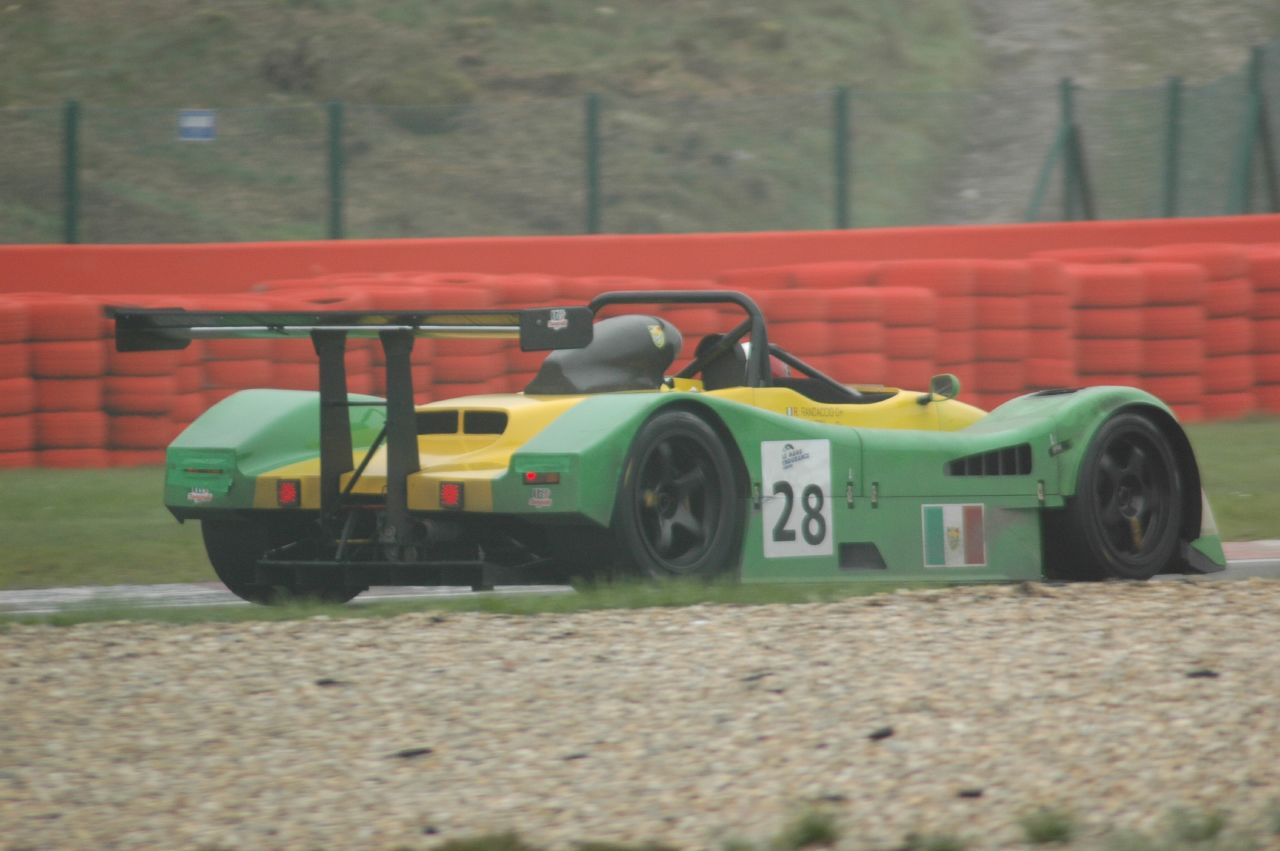 Ranieri Randaccio's Tampolli RTA2001-NME at the 2005 1000km of Spa